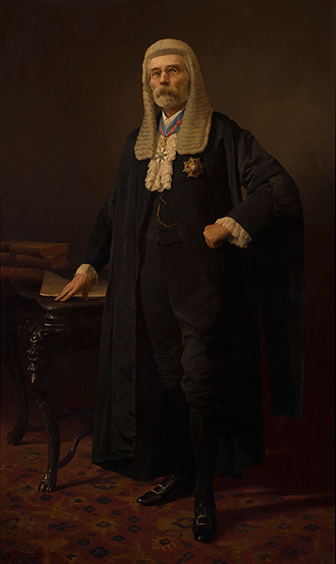 The Hon. Sir Frederick William Holder KCMG, first Speaker of the Australian House of Representatives (1901–1909)